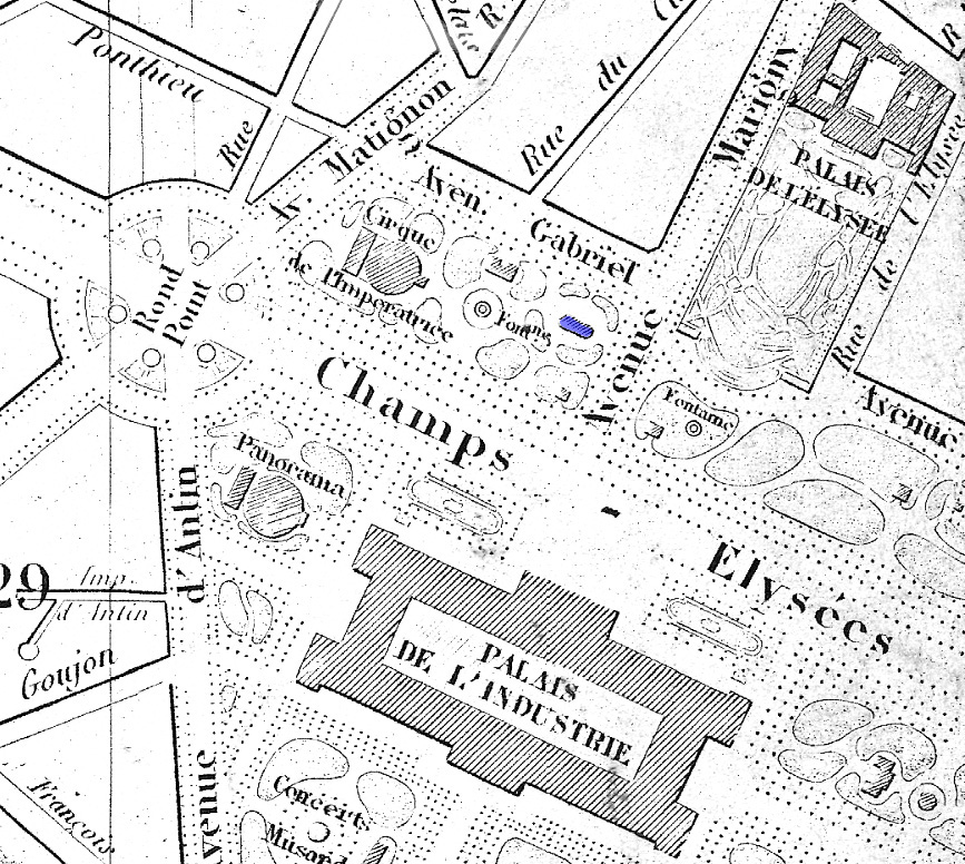 This is a small section of an 1869 map of Paris which shows the location of the small Salle Lacaze on the Carré Marigny of the Champs-Élysées. The Salle Lacaze was the first theatre of Offenbach's Théâtre des Bouffes-Parisiens. It was demolished in 1881. The title of the original map in French is: "Plan géométral de Paris et de ses agrandissements à l'échelle d'un millimètre pour 10 m". Scale: 1:10,000. (See "Paris in the 19th Century" at the University of Chicago Library website.) Resolution: 400 dpi. The light levels have been altered from those of the original digital copy, a blue color indicating the location of the theatre has been added, and other alterations have been made with Photoshop Elements 4.